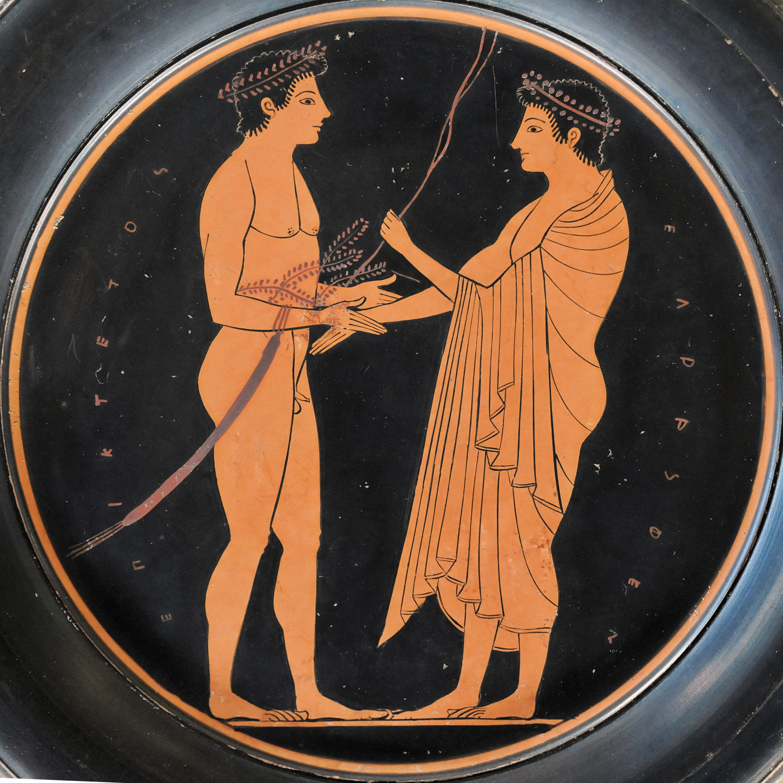 Palaestra scene. Tondo from an Attic red-figure plate, 520–510 BC. From Vulci.